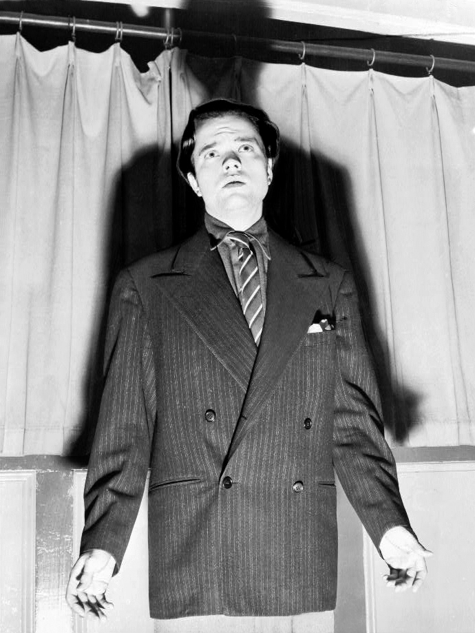 Photograph of Orson Welles on stage at the Mercury Theatre during the rehearsal of Danton's Death, after the CBS Radio broadcast of "The War of the Worlds"."Hours later, instead of arresting us, they let us out a back way and we scurried down to the theatre like hunted animals to their hole. It was surprising to see life going on as usual in the midnight streets, cars stopping for traffic, people walking. At the Mercury the company was still rehearsing Danton's Death … Welles went up on stage, where photographers, laying in wait, caught him with his eyes raised to heaven, his arms outstretched in an attitude of crucifixion. Thus he appeared in a tabloid the next morning over the caption, 'I Didn't Know What I Was Doing!'"— John Houseman, Run-Through (1972), pp. 404–405